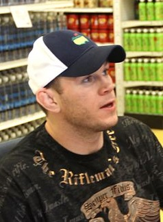 Forrest Griffin, Ultimate Fighting Championship, light-heavyweight fighter, autographs his new book titled “Be Ready When the Sh*t Goes Down: A Survival Guide to the Apocalypse” at the Camp Pendleton Country Store, Aug. 8. Within the last ten years, Griffin has written two books, his first being a New York Times best-seller, and named a UFC champion.